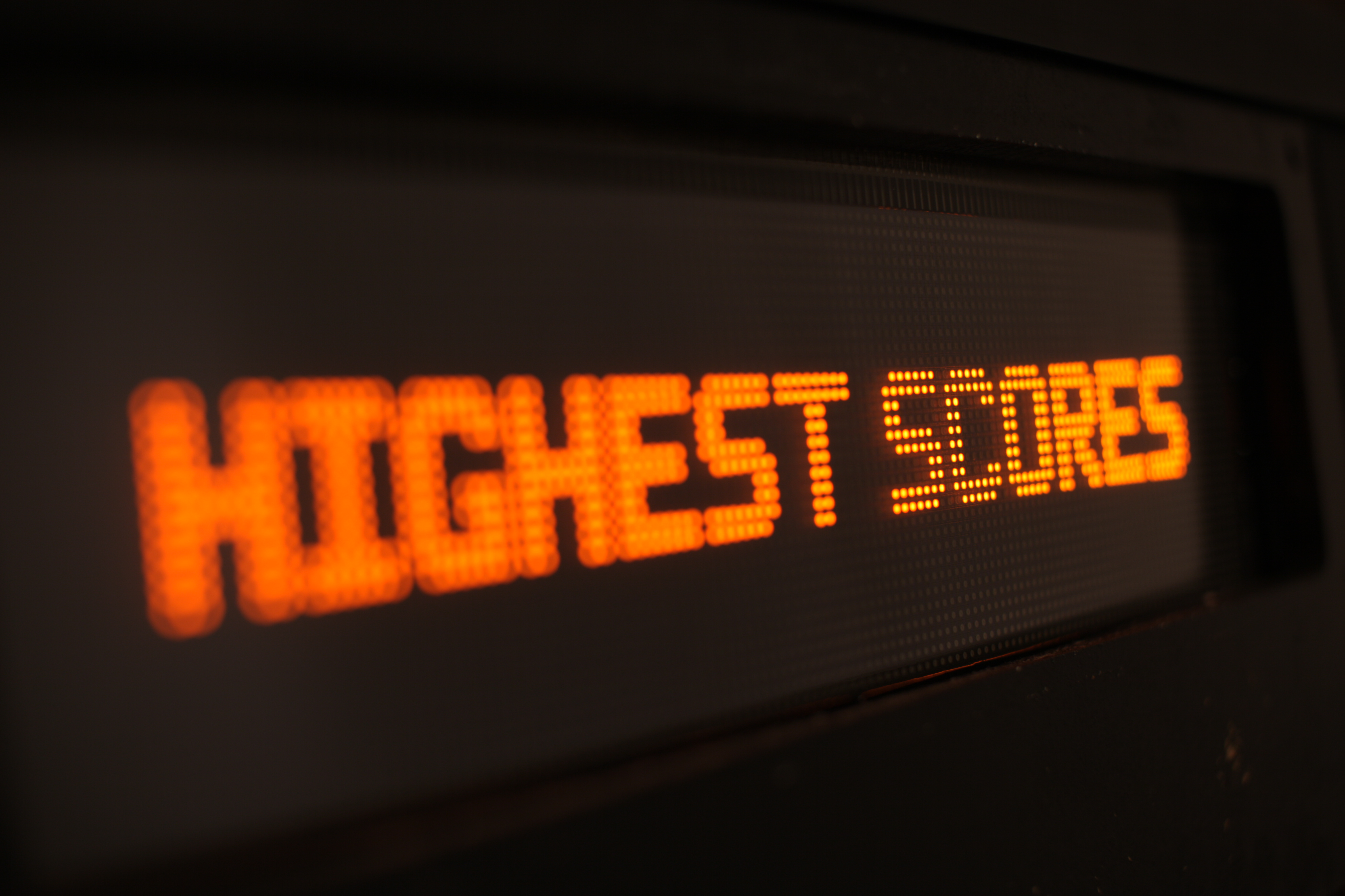 Dot-matrix display of the Williams pinball game "Demolition Man".